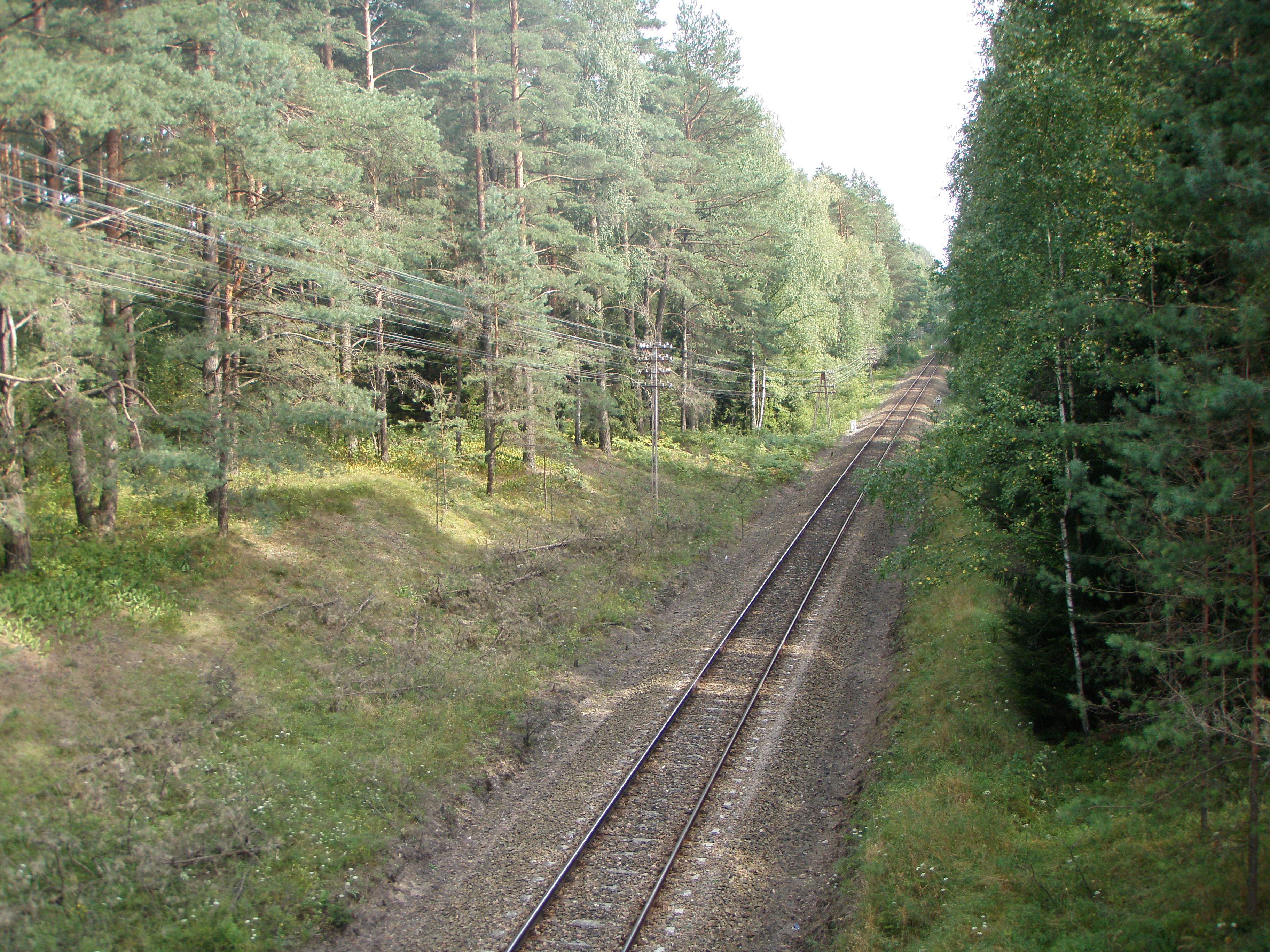 Railway line 40 in Sajenek in Poland.